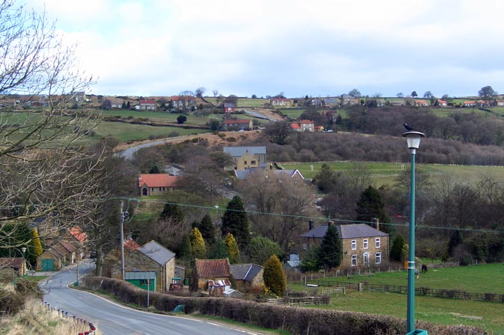 View across Eskdale towards Lealholmside, North Yorkshire